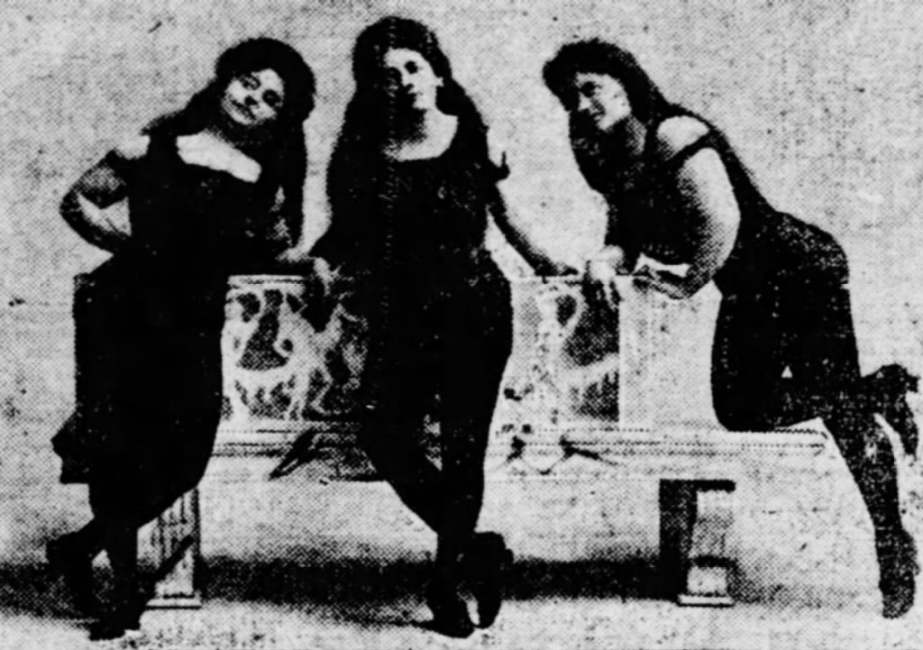 The trapeze and strongwoman act the Sisters Macarte in 1906